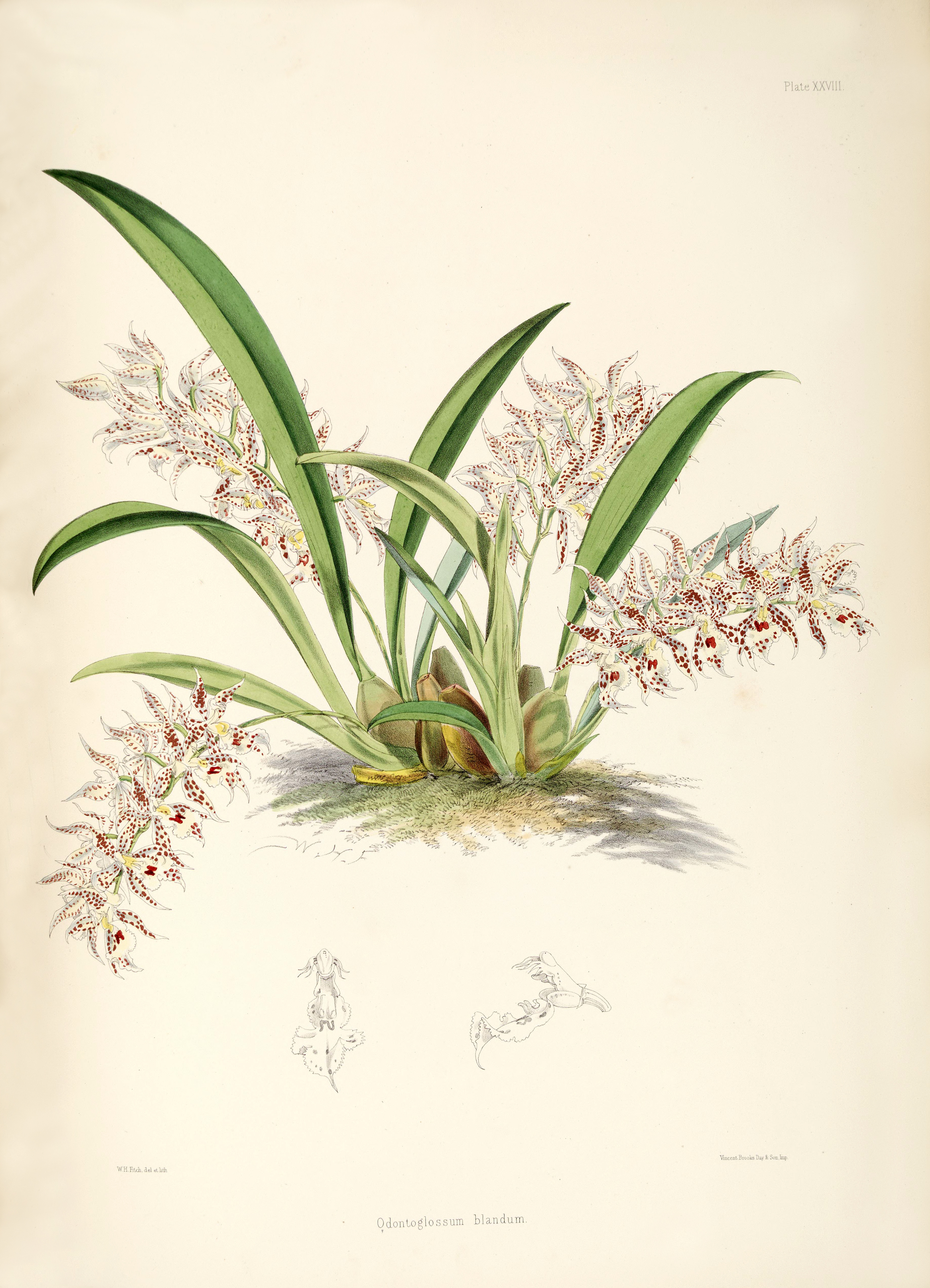 Illustration of Odontoglossum blandum